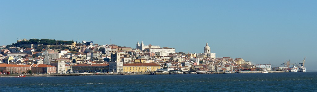 Lisbon viewed from Cacilhas. Photographer: Osvaldo Gago